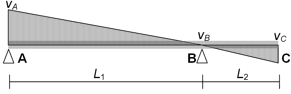 An example of virtual displacement field on a beam